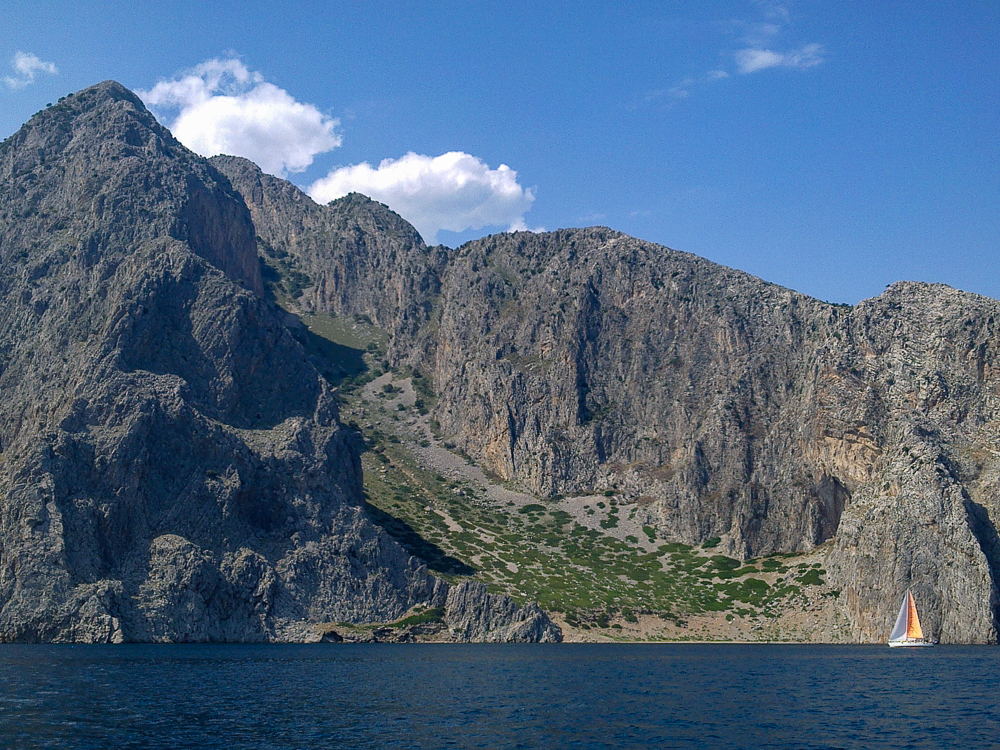 This is a photography of Natura 2000 protected area with ID GR2310005